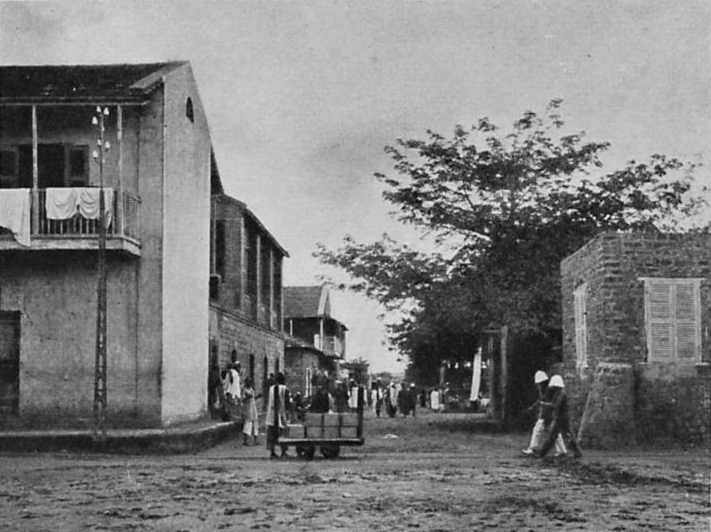 Rufisque (Senegal)